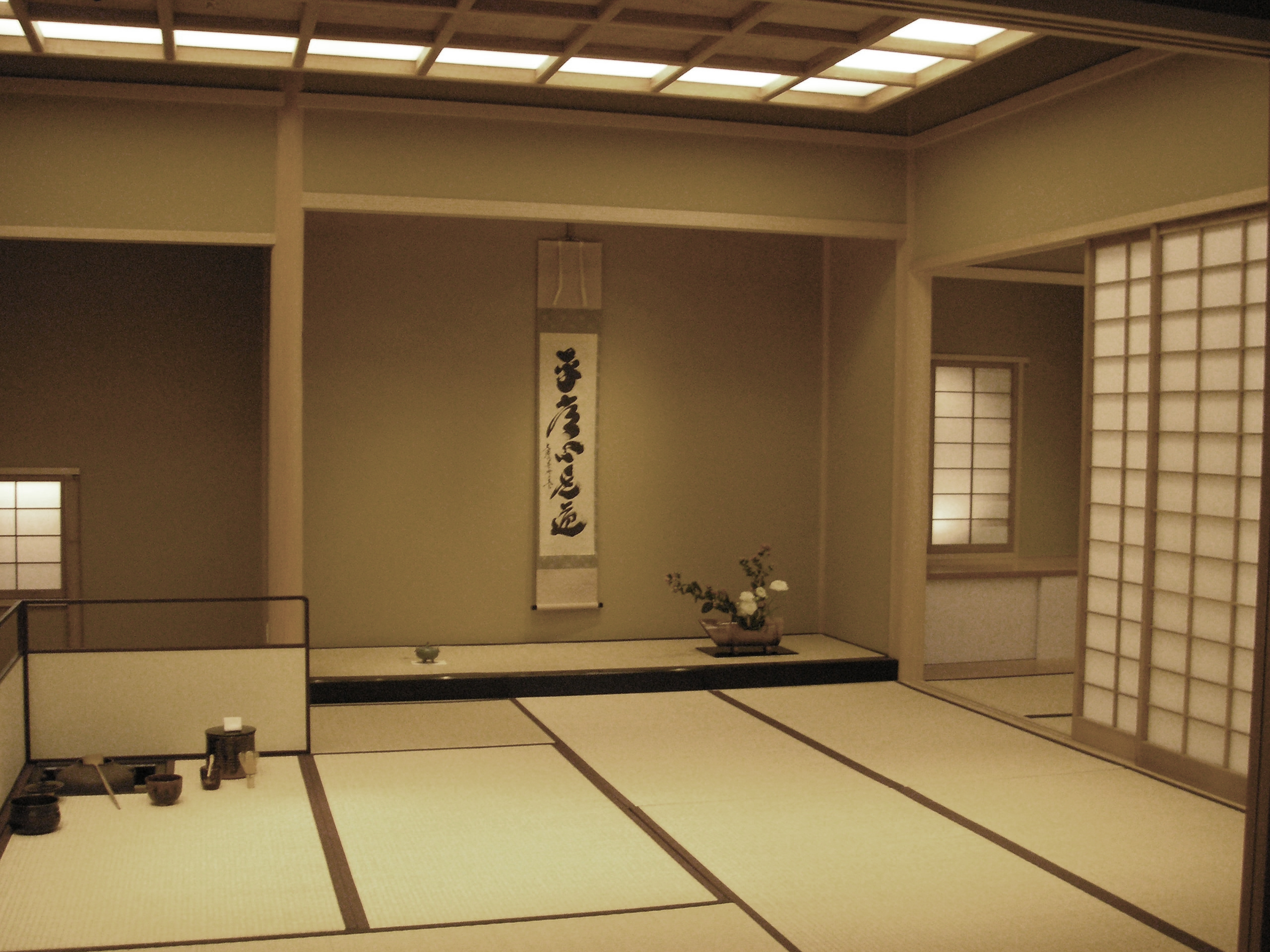 Inside view of Japanese Tea House, located at the Museum für Ostasiatische Kunst, Berlin-Dahlem.